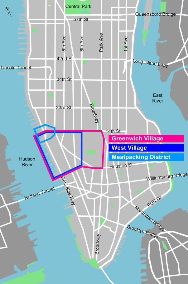 Map of Greenwich Village, West Village, Meatpacking District in Manhattan, New York City